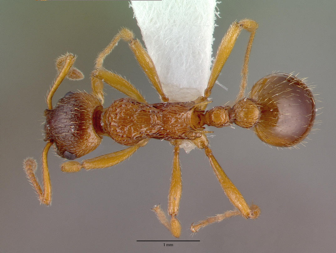 Dorsal view of ant Myrmica ruginodis specimen casent0008642.